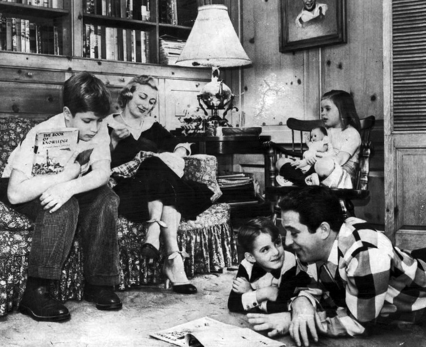 Photo of Perry Como and his family at home in Long Island circa 1955. On the sofa-his older son, Ronnie, and wife Roselle. In the chair with her doll is daughter Terry. Reading on the floor-younger son, David and Perry Como.